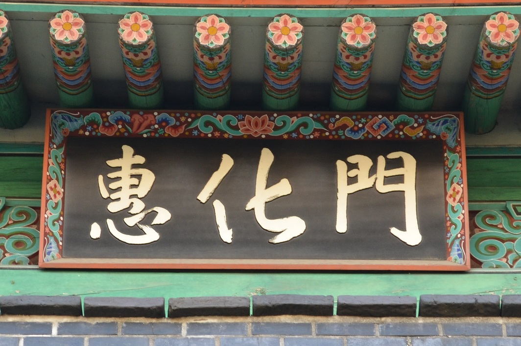 Signboard of Hyehwamun Gate, Seoul, South Korea. Hyehwamun is also known as Dongsomun, or Northeast Gate. Signboard was photographed May 5, 2012.